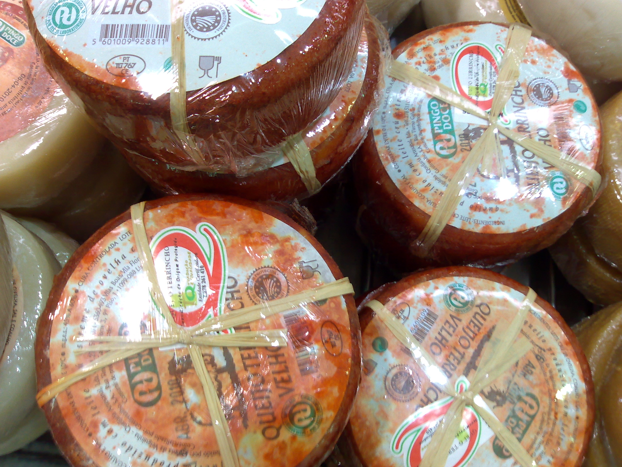 Queijo Terrincho, a portuguese cheese.